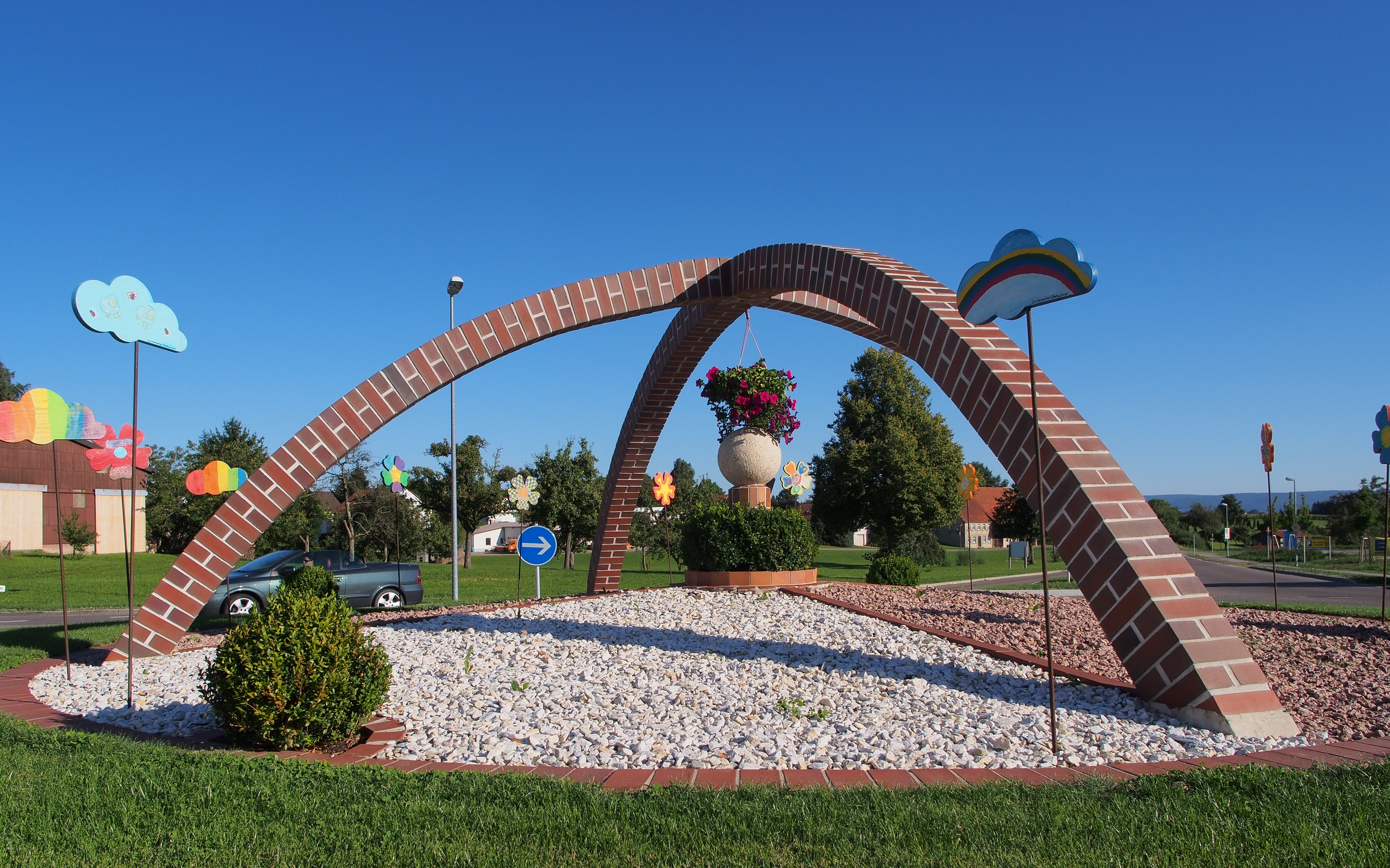 Roundabout decoration, Eschach-Holzhausen, Germany. The painted flowers and clouds have been created by local children.